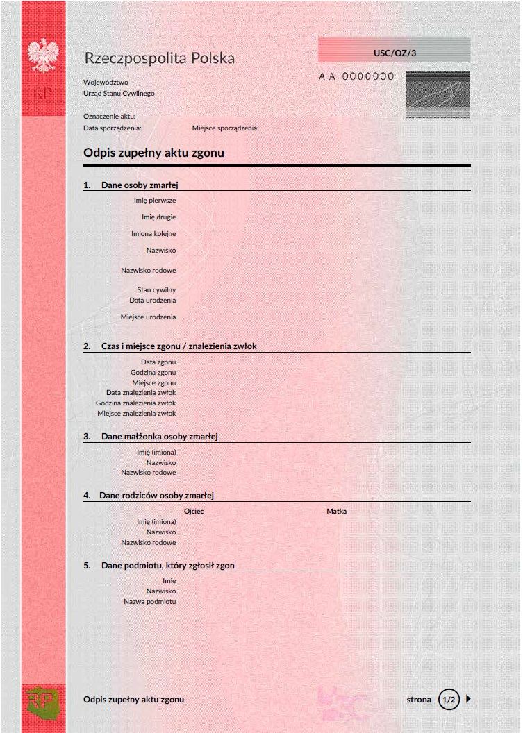 Polish death certificate, page 1 of 2, new version since 2015